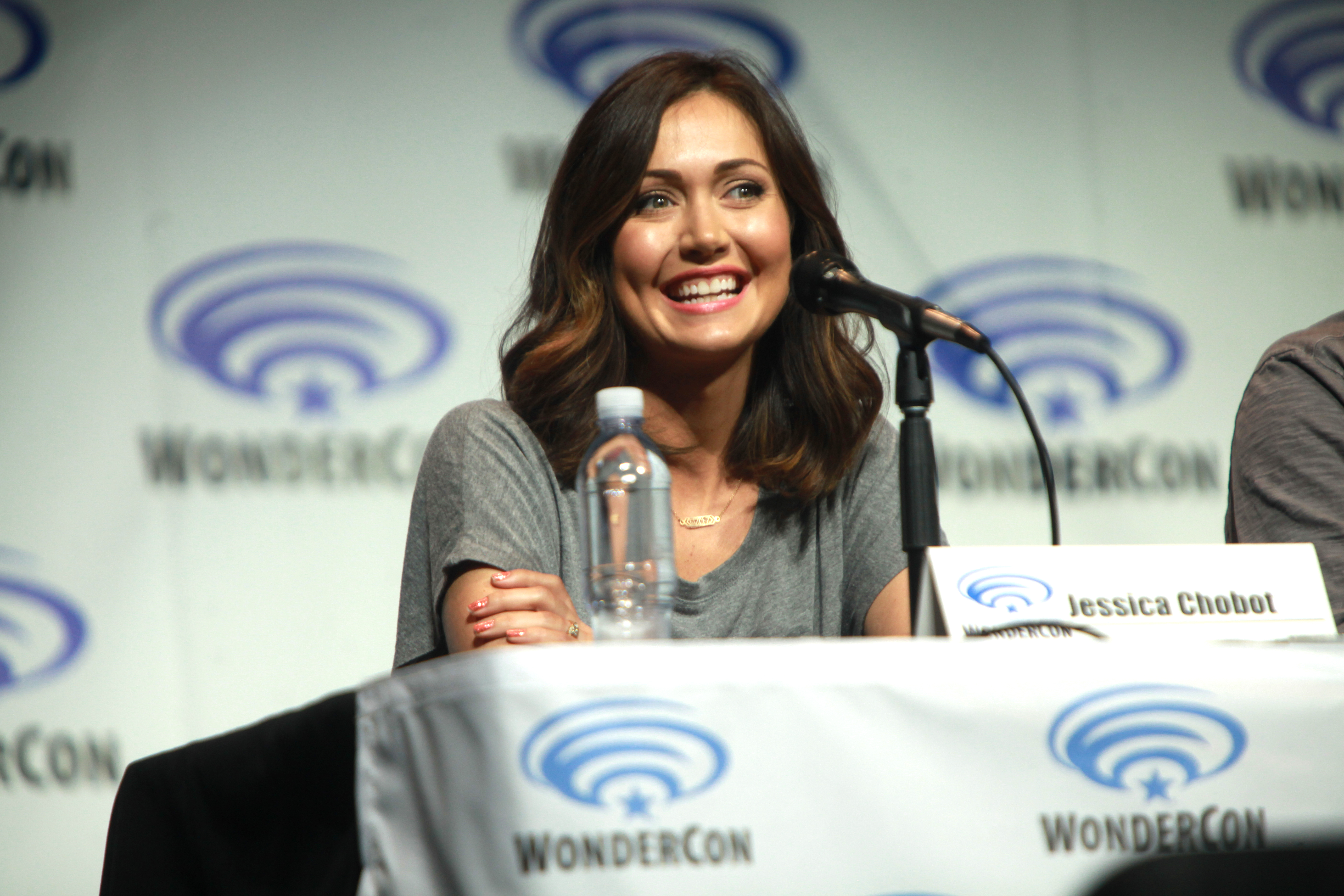 Jessica Chobot at the 2014 Wondercon as a part of the Nerdist News panel, at the Anaheim Convention Center in Anaheim, California.